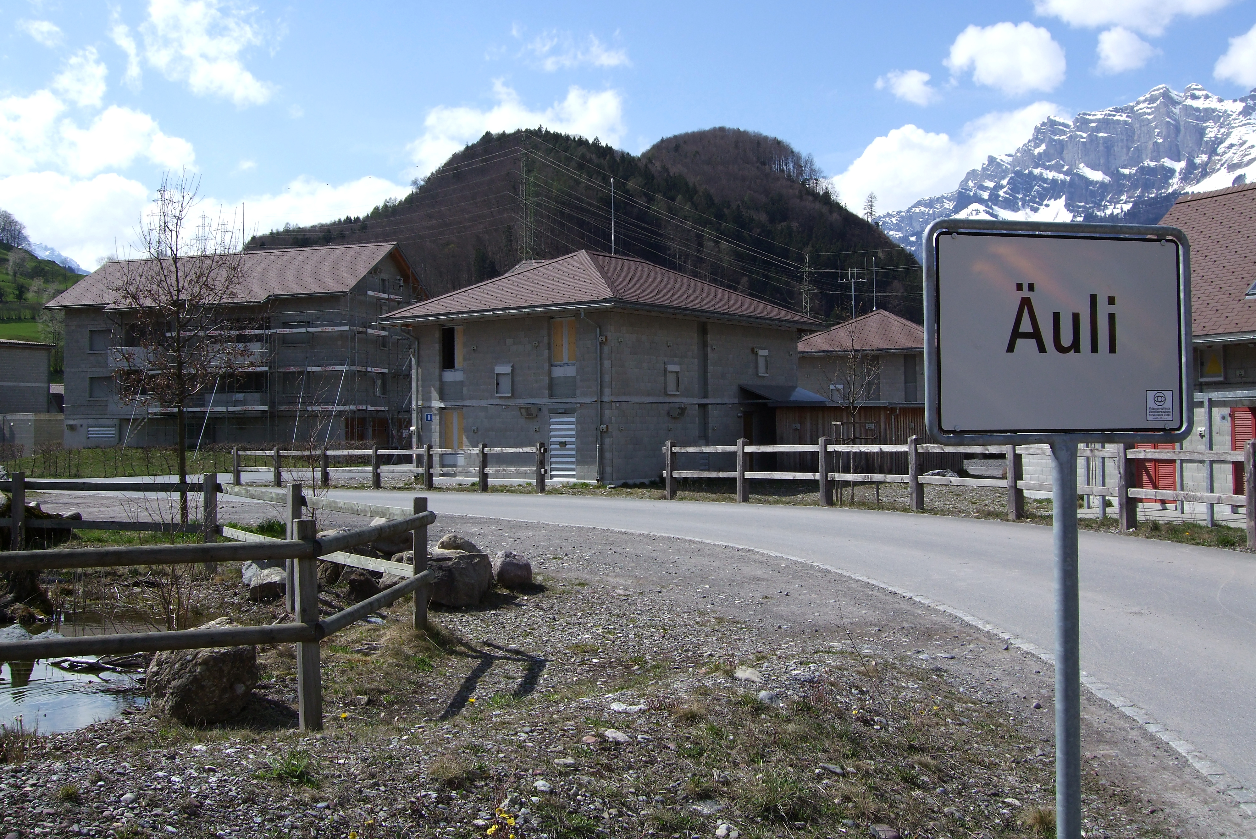 The eastern part of this not existing place was built in the style of a village. Military plant between Walenstadt and Flums, Switzerland, Apr 13, 2008.